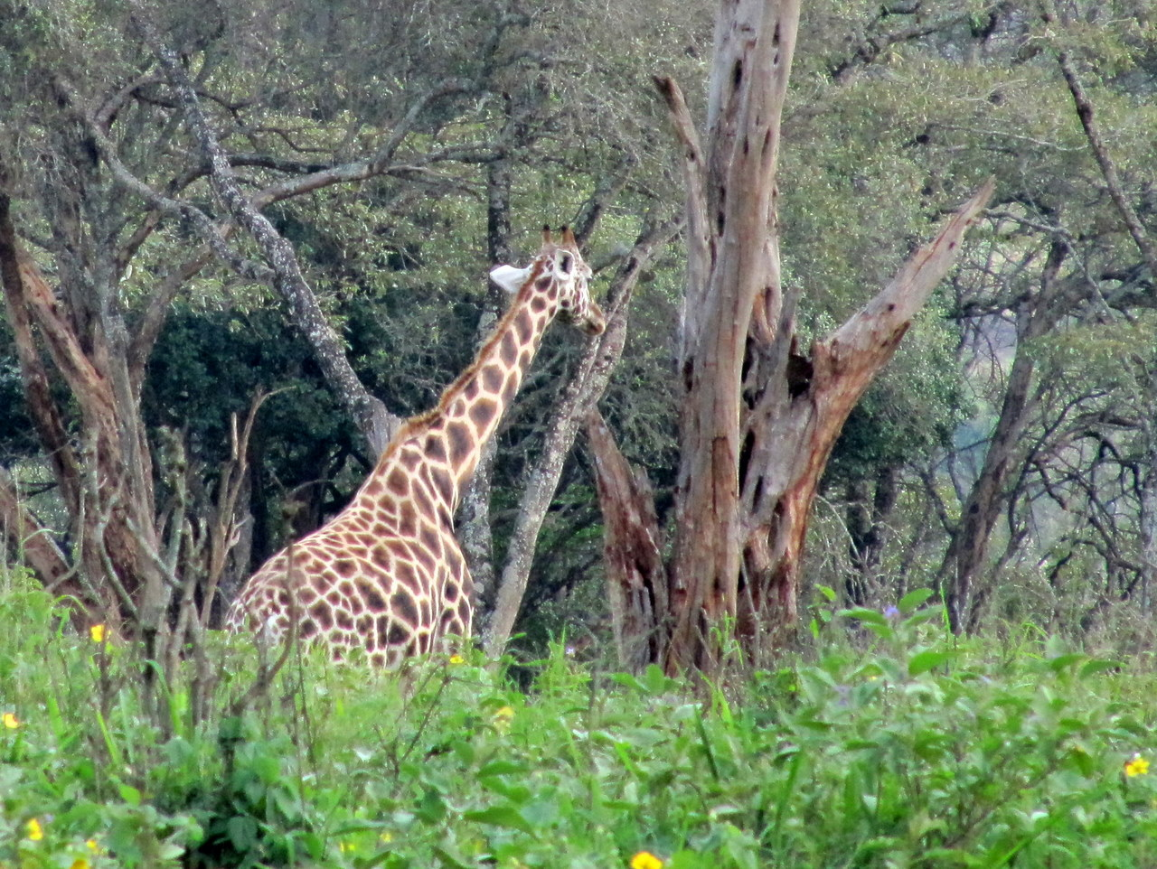 Rothschild giraffe Lora in Giraffe Centre, Kenya